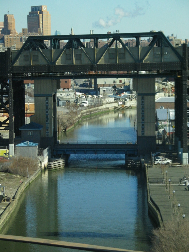 The Smith/Ninth Street station at the IND Culver Line is on top of this bridge over the Gowanus Canal. The bridge is so high that it does not need to open to let ships pass, though the 9th Street bridge below must. Although the next station in both directions lead to (almost-)underground stations and the ramps on both sides look rather steep, the slope is quite gentle. Digging a tunnel beneath the canal would have meant higher costs and a steeper incline on both sides. The bridge crosses Gowanus Canal. On top is the Smith-9th Street IND subway station, and on bottom is the 9th Street roadway, used by cars and B75 bus.